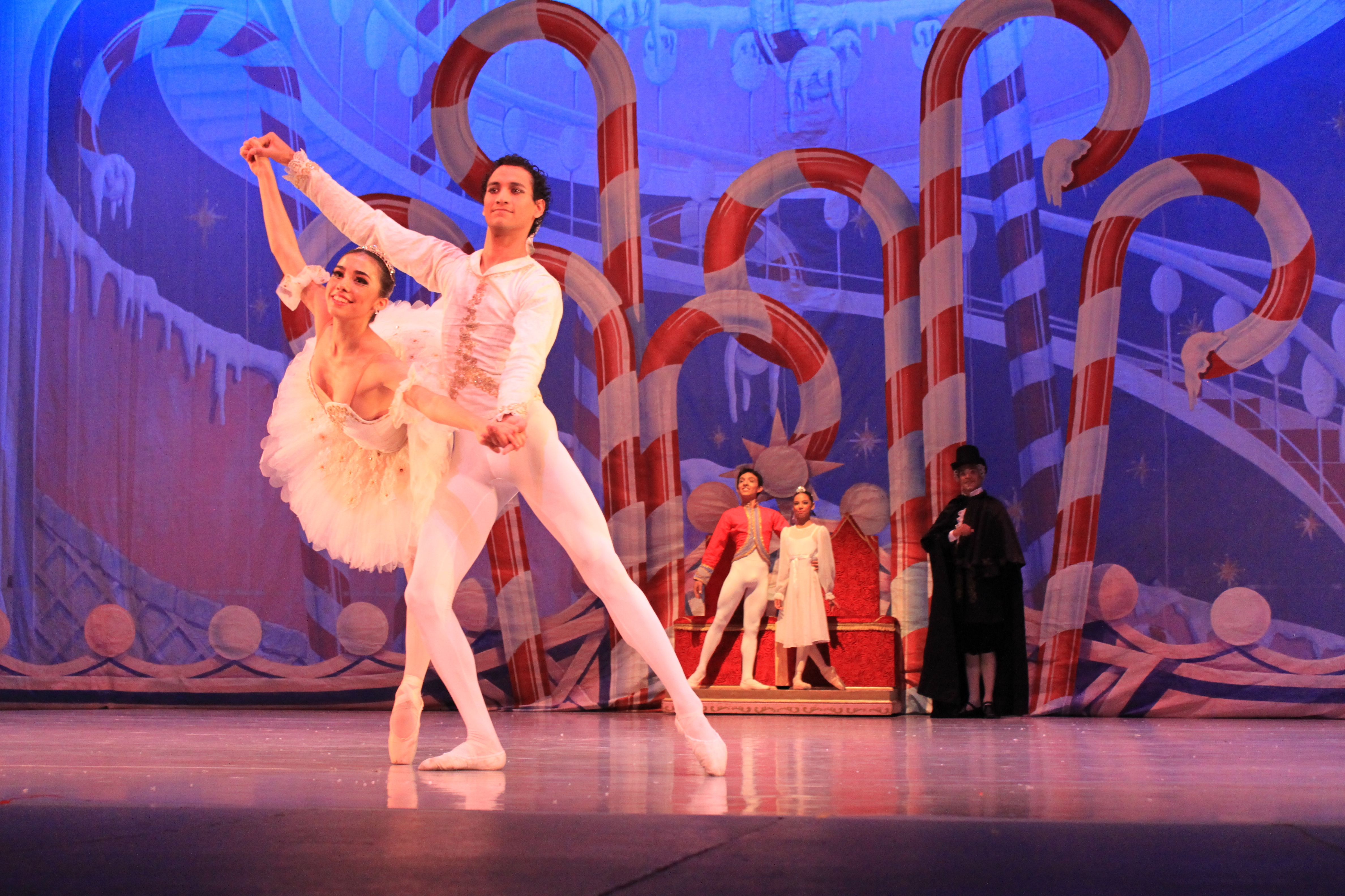 Grand pas de deux of the Sugar Plum Fairy from the ballet The Nutcracker as performed by the Escuela Superior de Música y Danza in 2011.